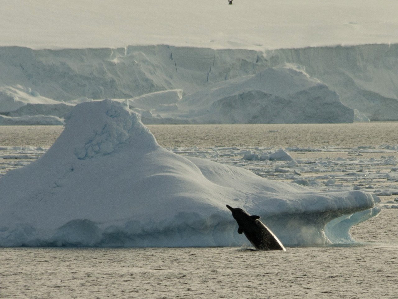 Baird's beaked whale in Antarctica